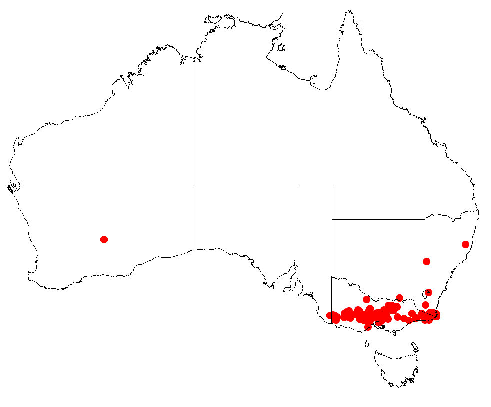 Acacia aculeatissima Occurrence data from Australasia Virtual Herbarium downloaded from on 8 December 2018